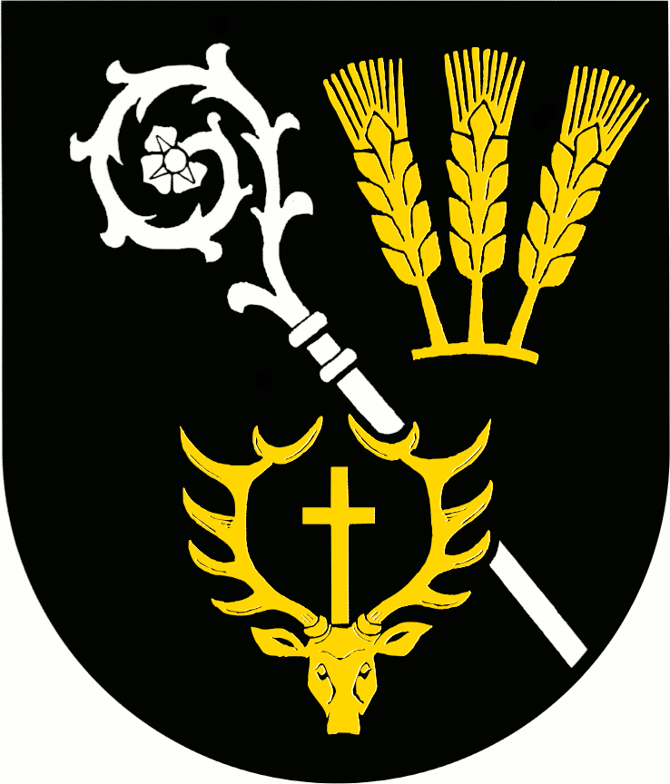 Coat of arms of Gevenich